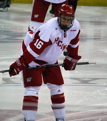 Wisconsin